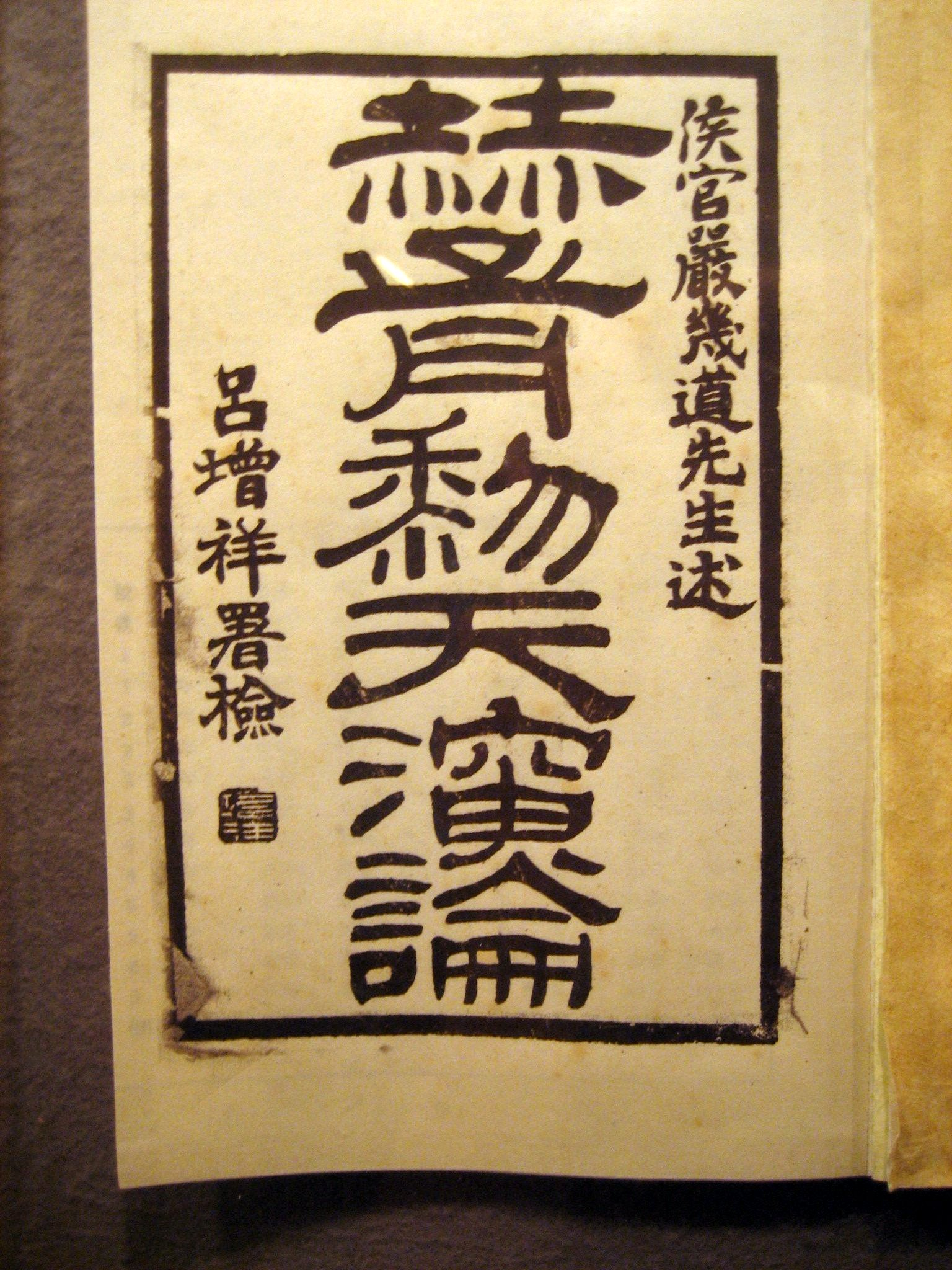 天演论（Thomas Huxley's Evolution and Ethics, translated by Yan Fu）, photoed by Mountain at Cai Yuanpei Memorial in Shanghai.